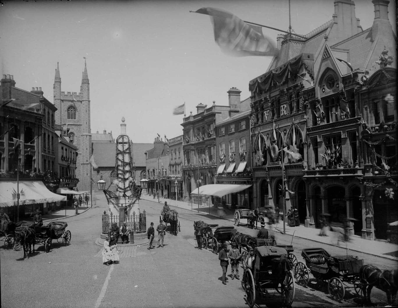 Market Place, Reading, looking northwards to St. Laurence's Church, 1887. The Simeon Obelisk, designed by Sir John Soane, is garlanded to celebrate the Golden Jubilee of Queen Victoria. On the west side, Nos. 33 and 34 (J. S. Salmon and Son, tea dealers). On the east side, Nos. 21 and 20 (the Royal Standard Inn); Nos. 19 and 18 (the Elephant Inn); No. 17 (Frank Cooksey, estate agent); Nos. 16, 15, 14 and 13 (London and County Bank); Nos. 12 and 11 (Morris and Davis, tailors); No. 8 (Sutton and Sons, seedsmen); No. 7 (the "Reading Mercury" office); No. 6 (George Russell Butler, estate agent). Horse-drawn cabs wait in the middle of the road. 1880-1889 ; glass negative, Box 19 No. 6184, by H. W. Taunt.